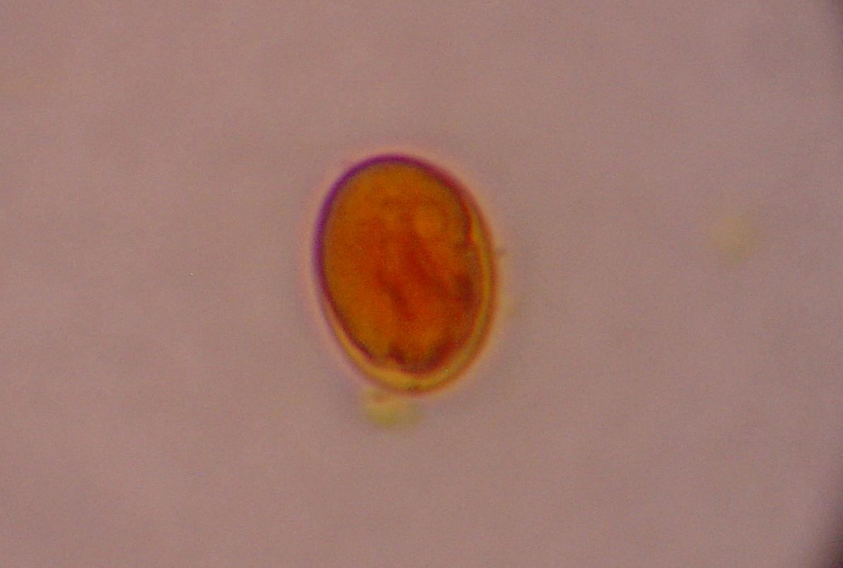 Giardia lamblia cyst in a fecal smear from a dog. Stained with Lugol's iodine and taken at 40x.